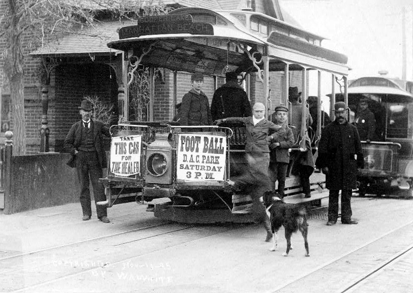 View in Denver. "Take this car for the 'Healer' / Children and adults on streetcar with sign "take this car for the healer."